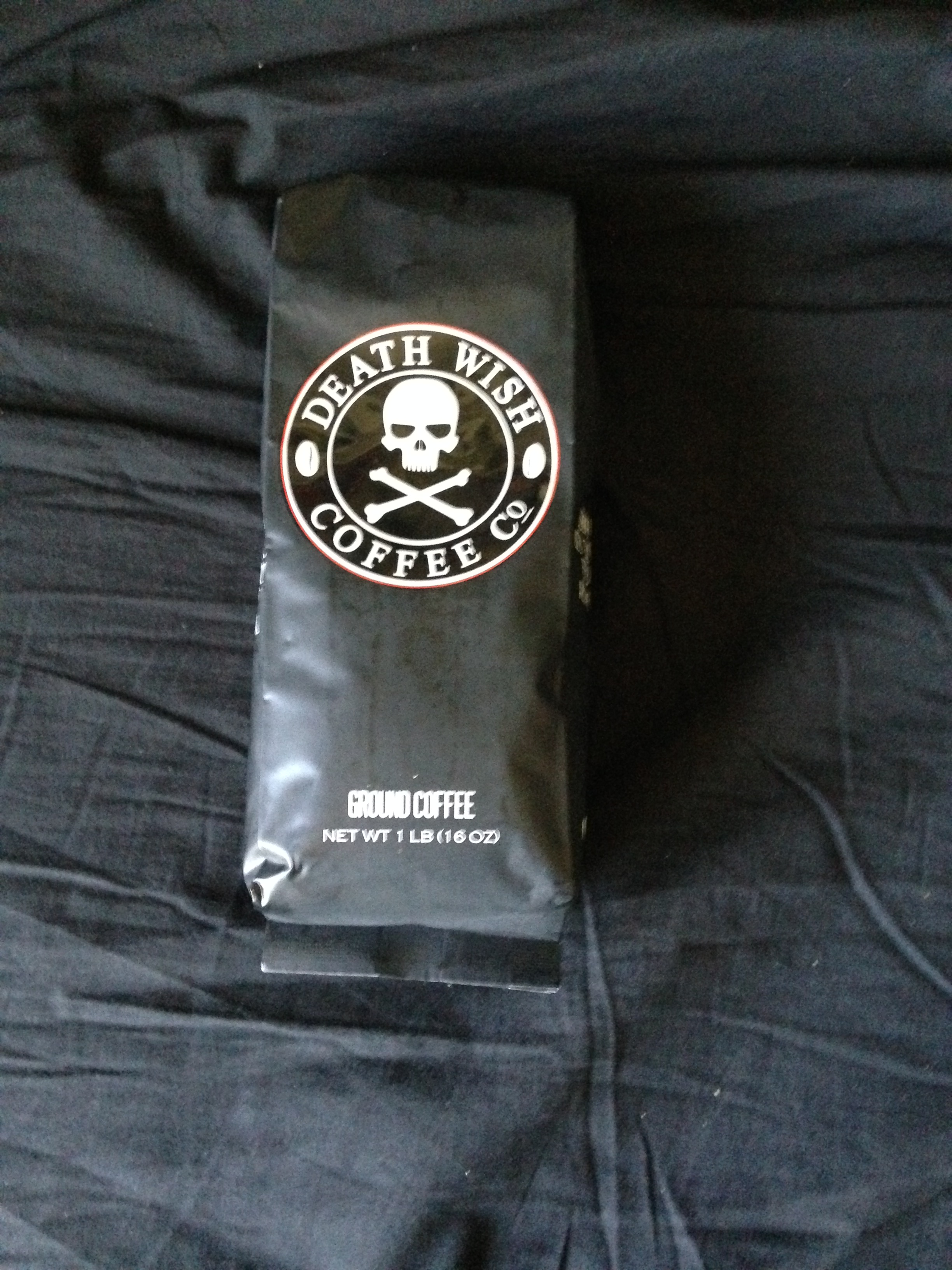 A picture of a bag of Death Wish Coffee. This photo was taken in April 2016 in Harrisonburg, VA.